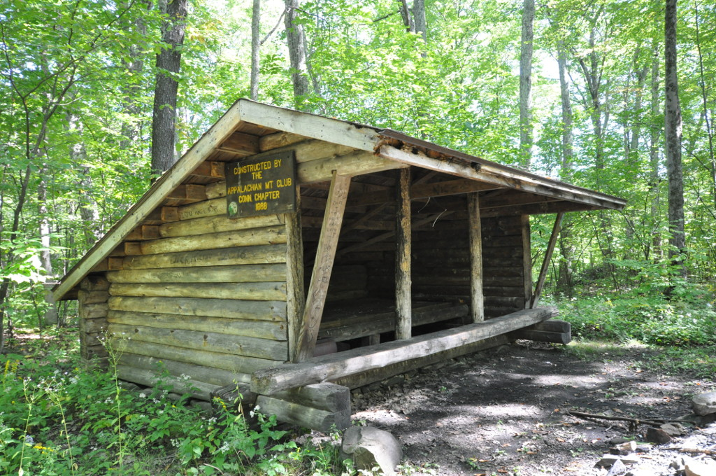 Cream Hill Shelter, built in 1988 by the Appalachian Mountain Club. Replaced a 1930s CCC shelter on the same site.